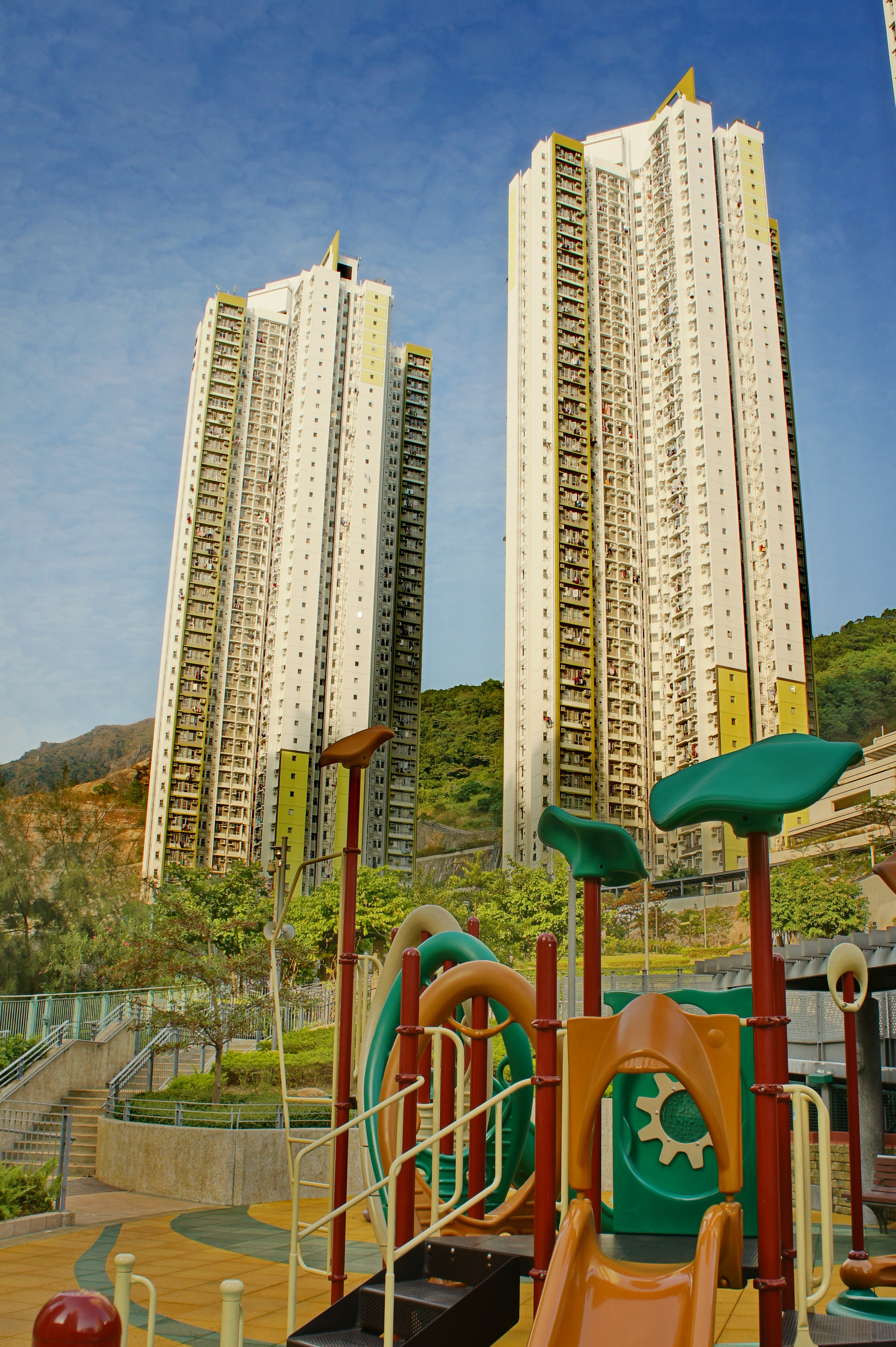 Choi Hei Road Park, Children Play Area, Kwun Tong, Hong Kong.